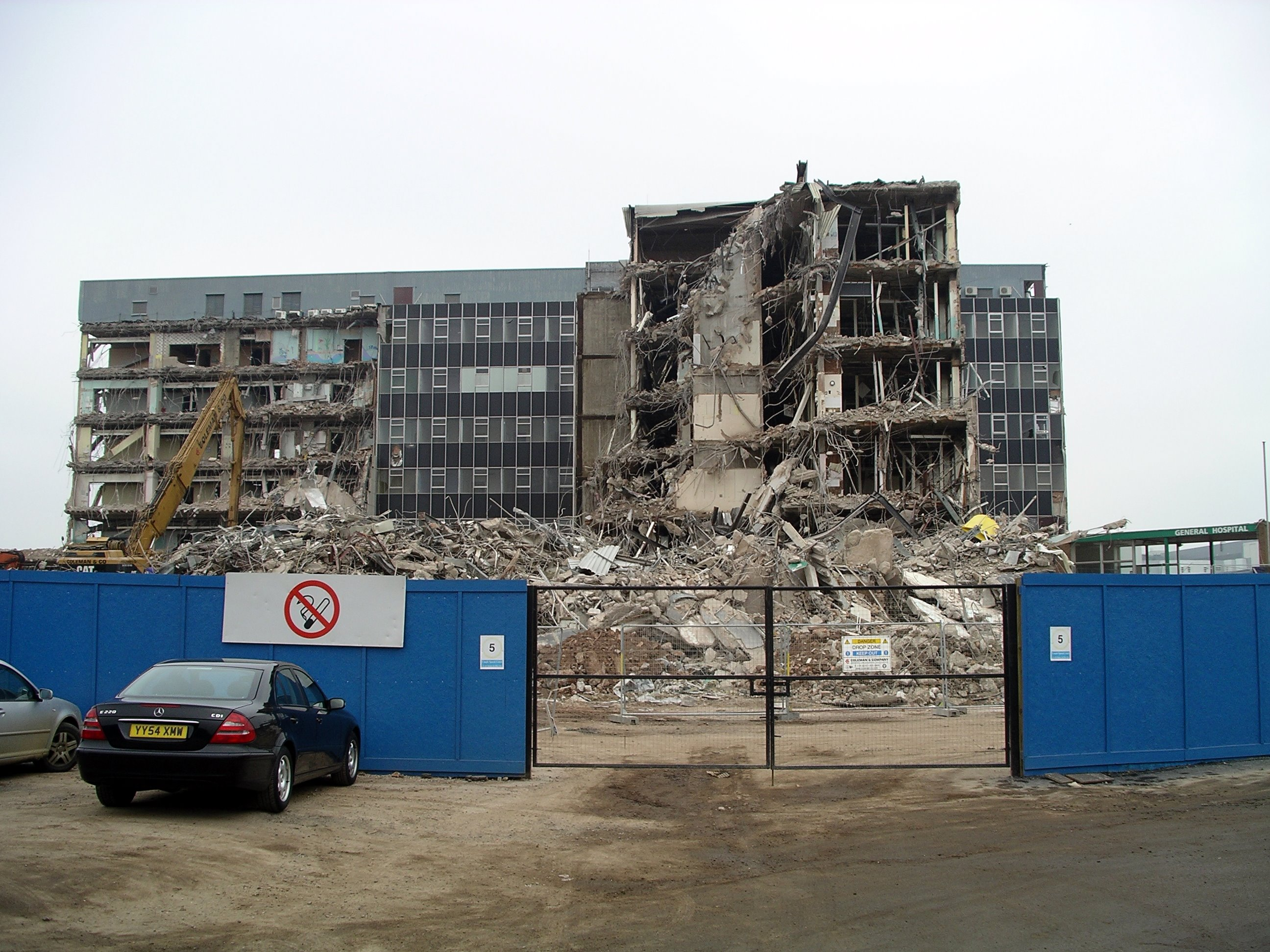 Photograph taken on 1 Feb 2007 of the front of Walsgrave Hospital, Walsgrave, Coventry, England during demolition.